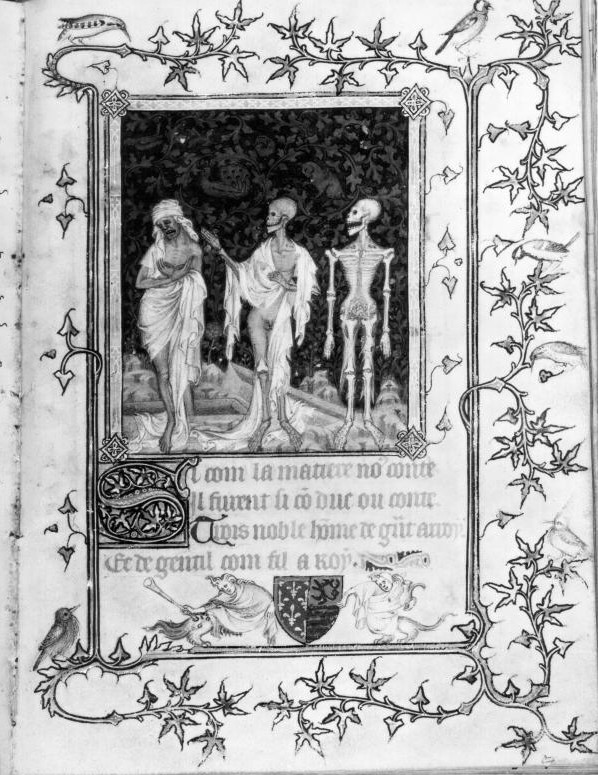 Psalter and Hours of Bonne of Luxembourg